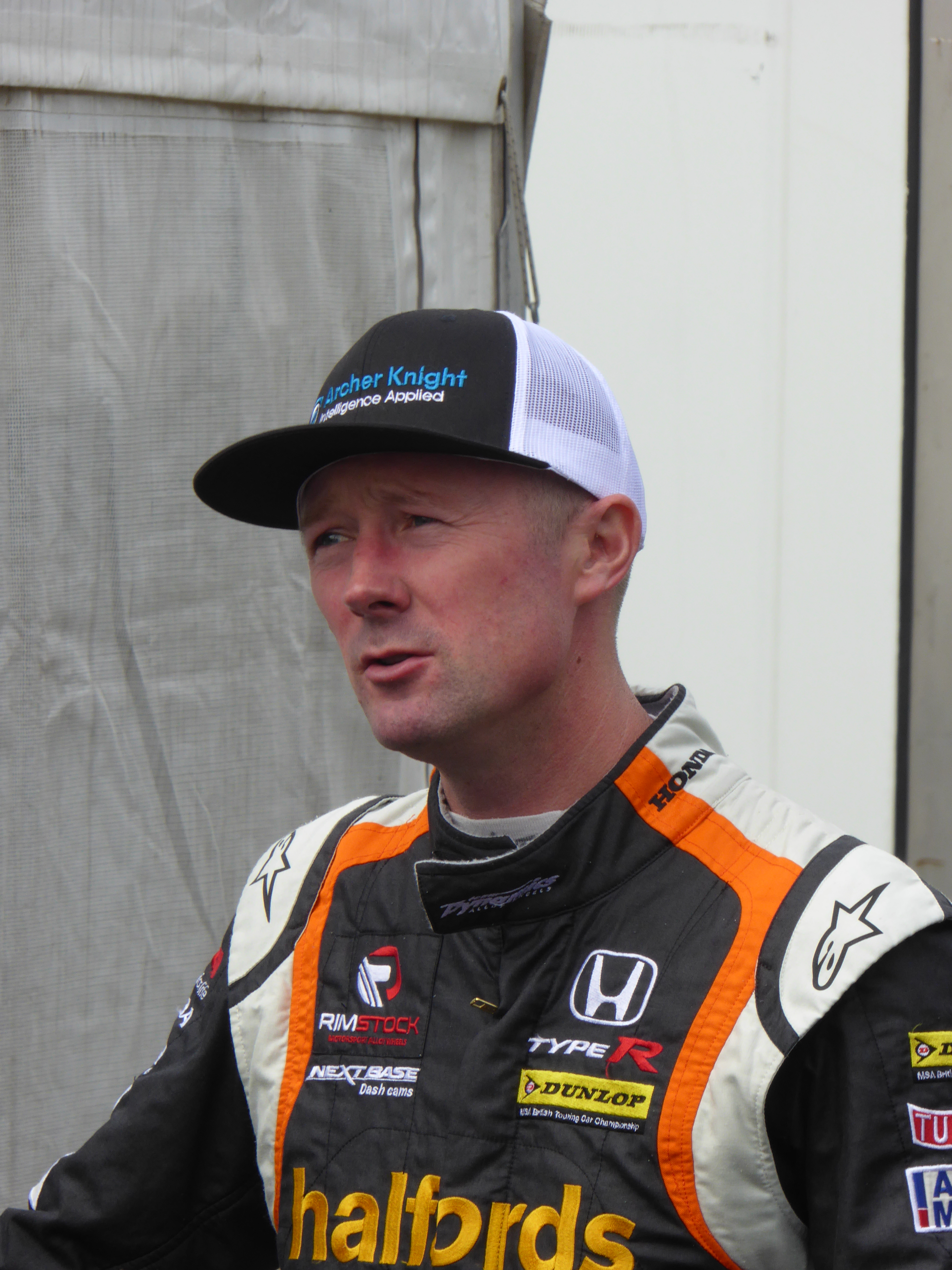 Gordon Shedden (Halfords Yuasa Racing), at the Knockhill round of the 2017 British Touring Car Championship.